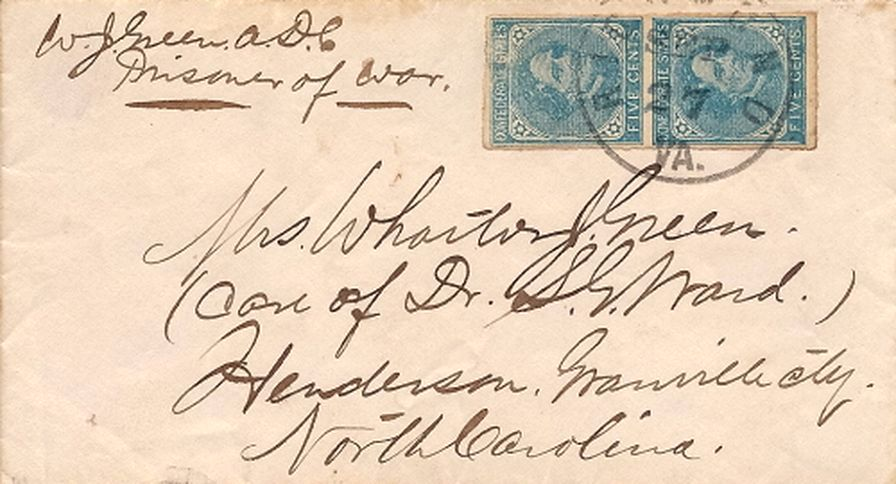 Confederate POW letter, inner letter with CSA postage stamps attached. Postmark Richmond, Va Sept 27, 1864. Lt Col Wharton Jackson Green (1831-1910) staff officer to General Daniel and wounded at Gettysburg and captured. Letter is dated: “Johnson’s Island Ohio July 28th 1864” Endorsed at upper left “W. J. Green ADC Prisoner of War.”